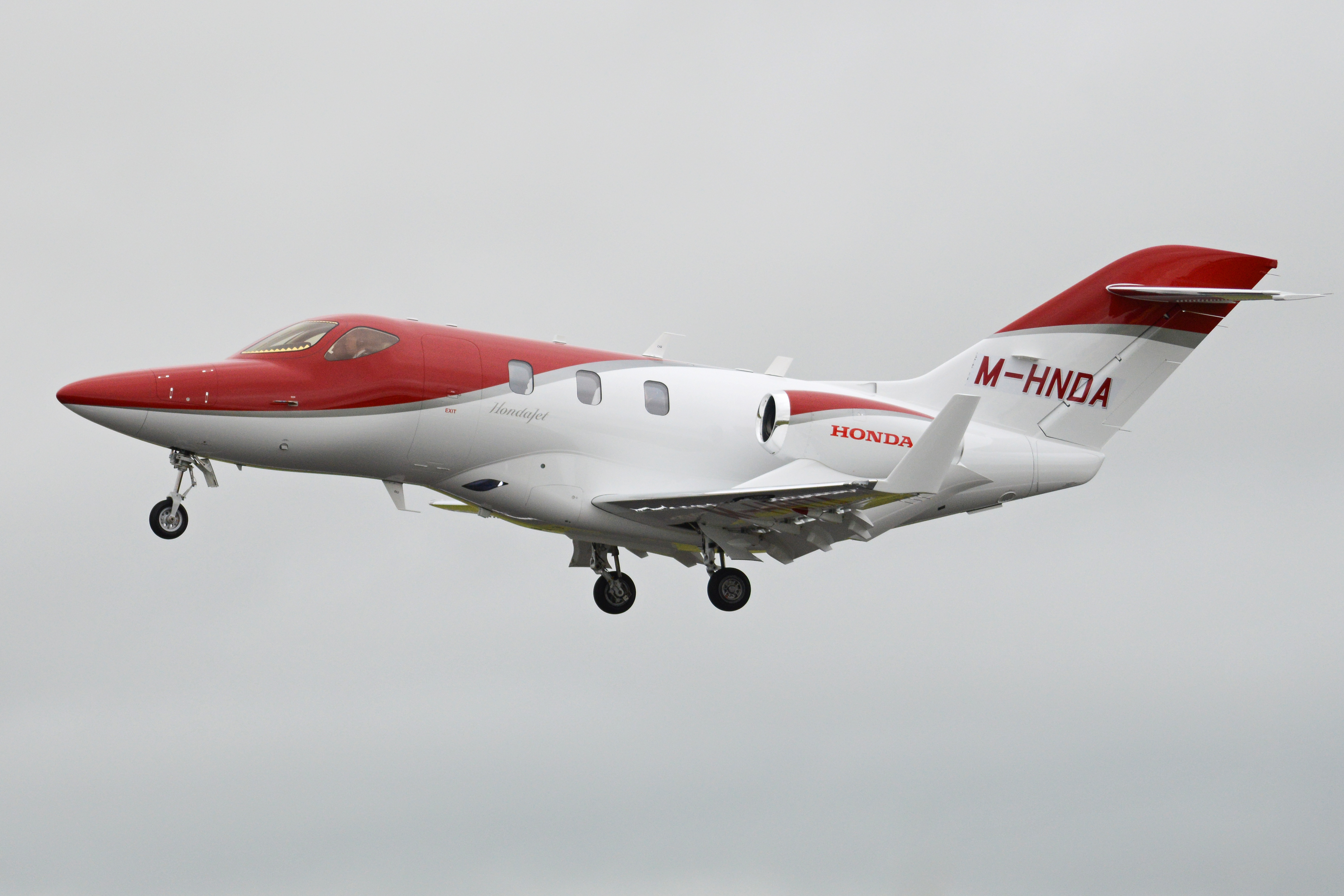 c/n 42000018. Built 2016 Seen arriving for the 2016 Royal International Air Tattoo (RIAT), Fairford, UK. Friday 8th July 2016